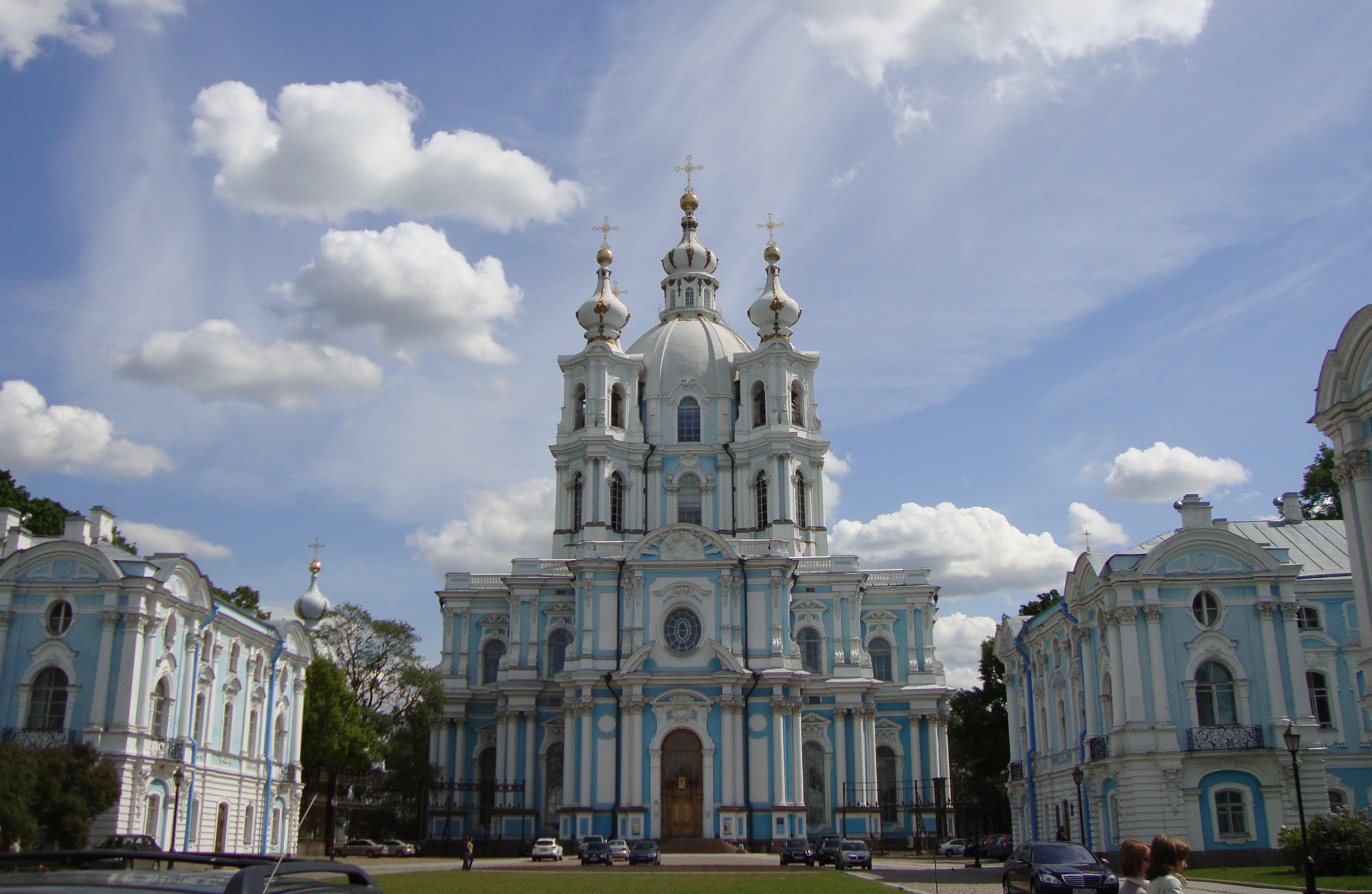 Frontal view on cathedral of Smolny monastery in Saint Petersburg, Russia.